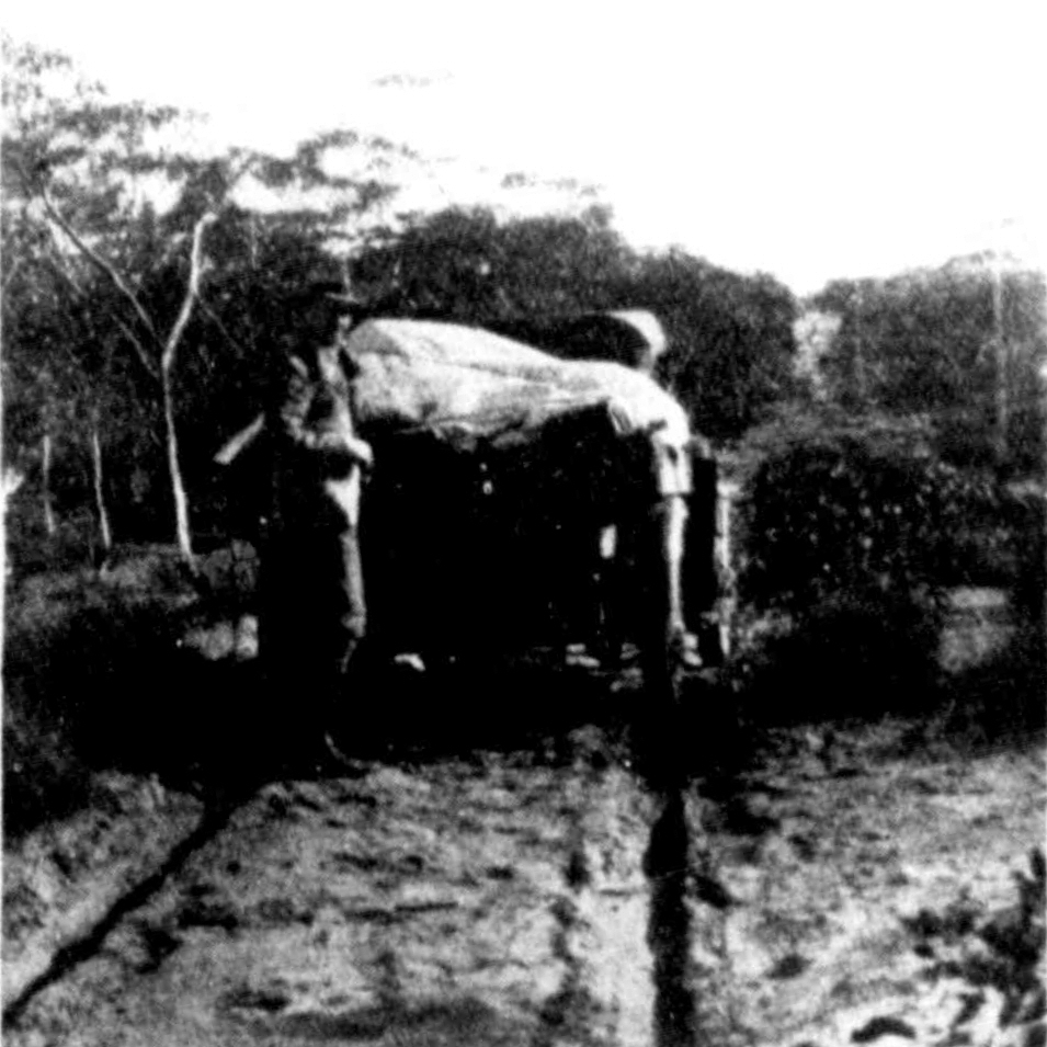 The road heading to west to Ceduna, South Australia, in 1929, prior to the construction of Eyre Highway in the early 1940s